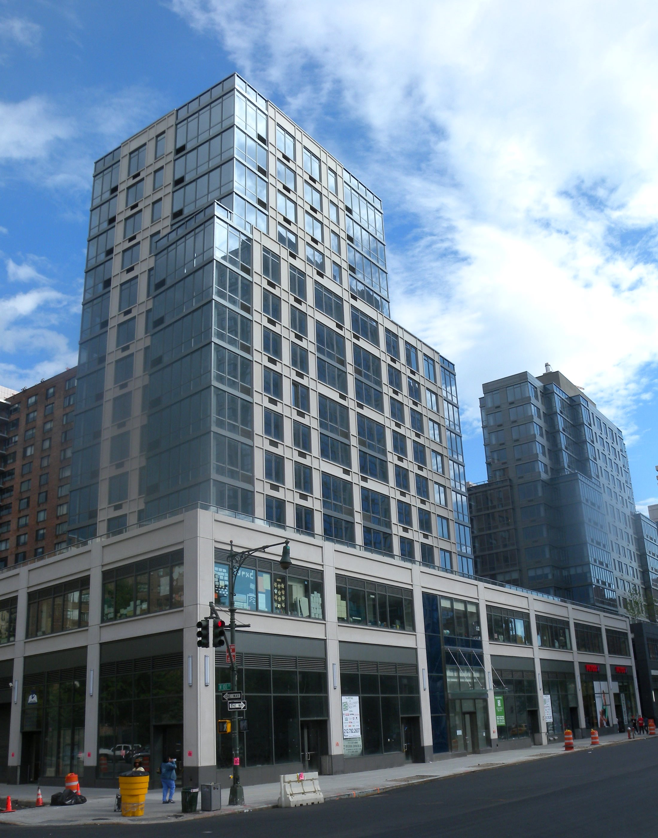 Looking southeast at 805 Columbus Avenue on a mostly sunny afternoon.